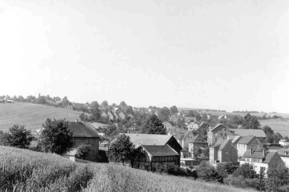 Culitzsch from the North – a former village and now part of Wilkau-Haßlau (Saxony)